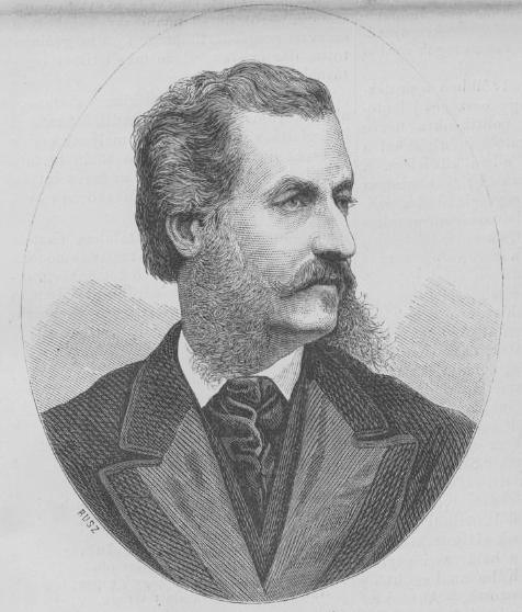 Portrait of Géza Szapáry